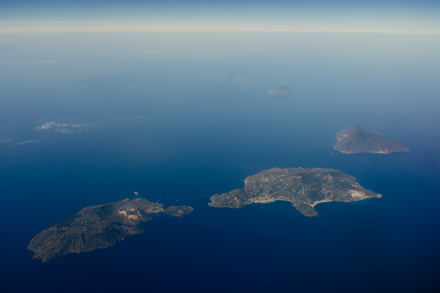 Liparic Islands